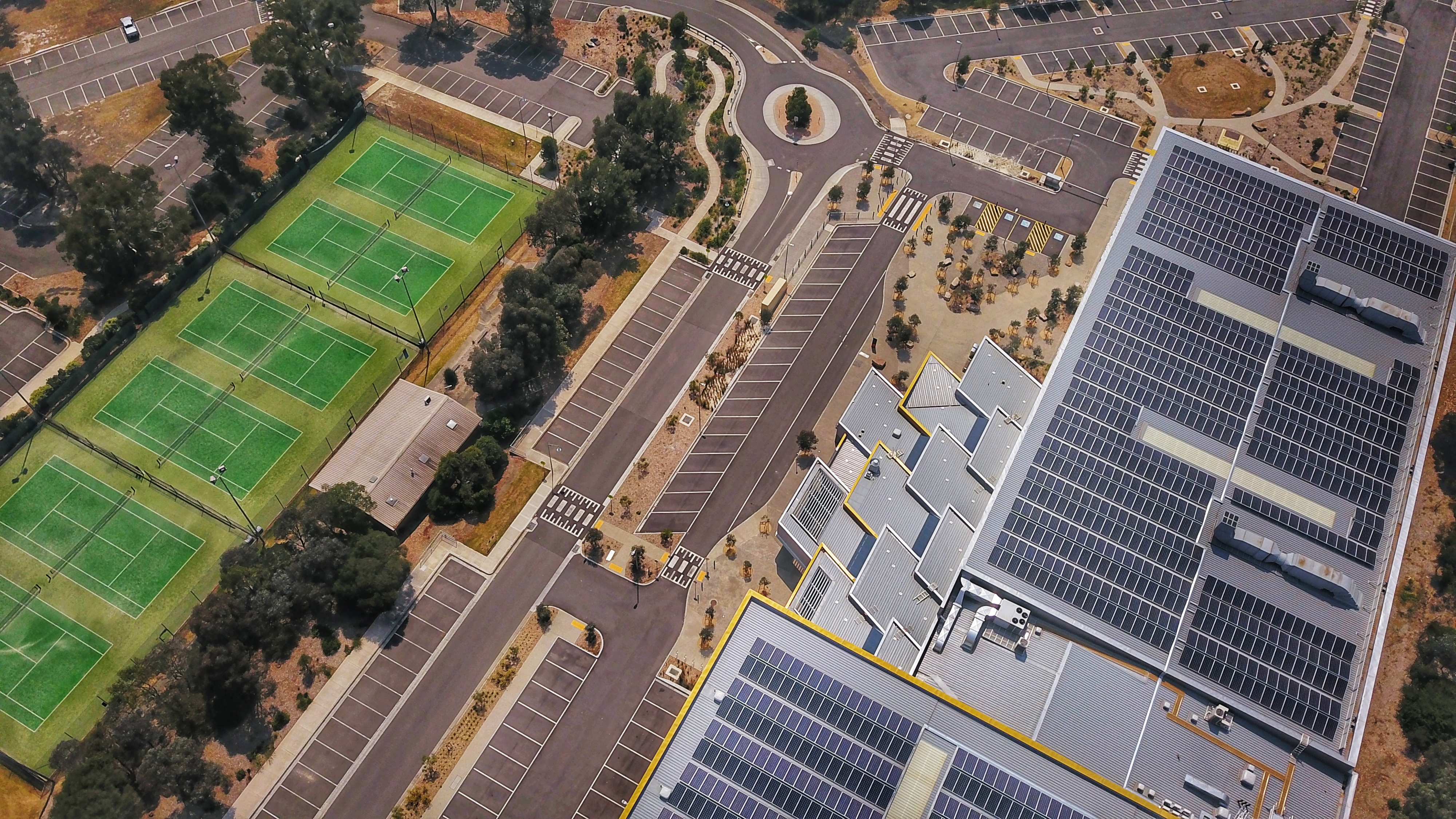 Mullum Mullim Stadium from the air